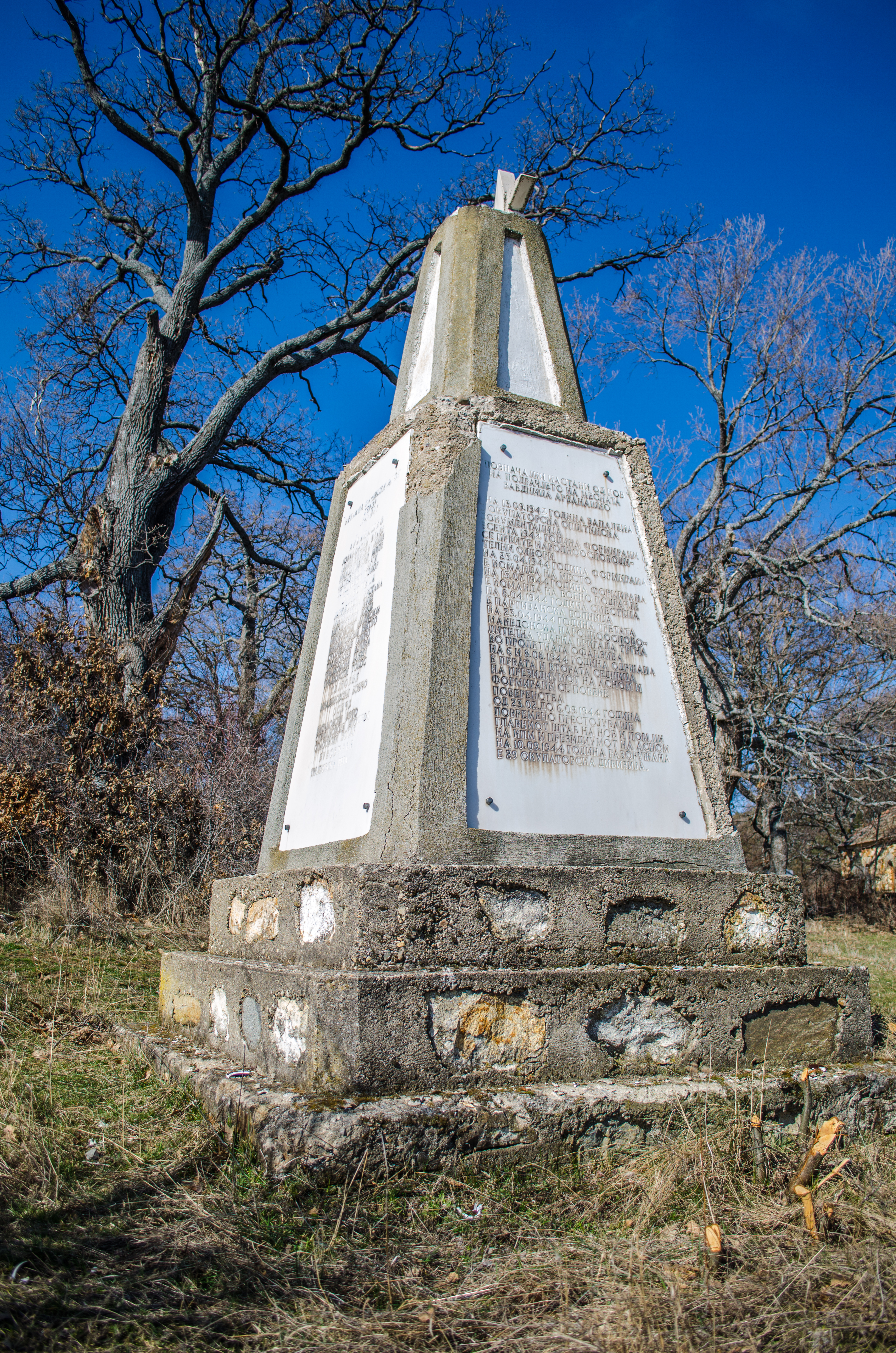 Statue in Arbanaško